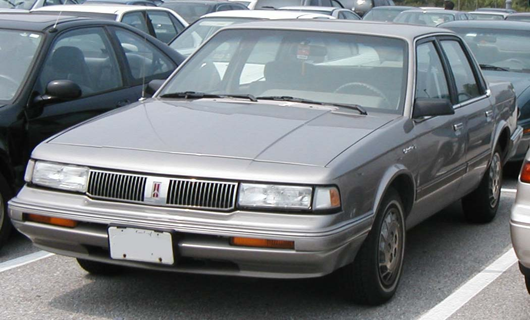 1989-1996 Oldsmobile Cutlass Ciera photographed in USA.